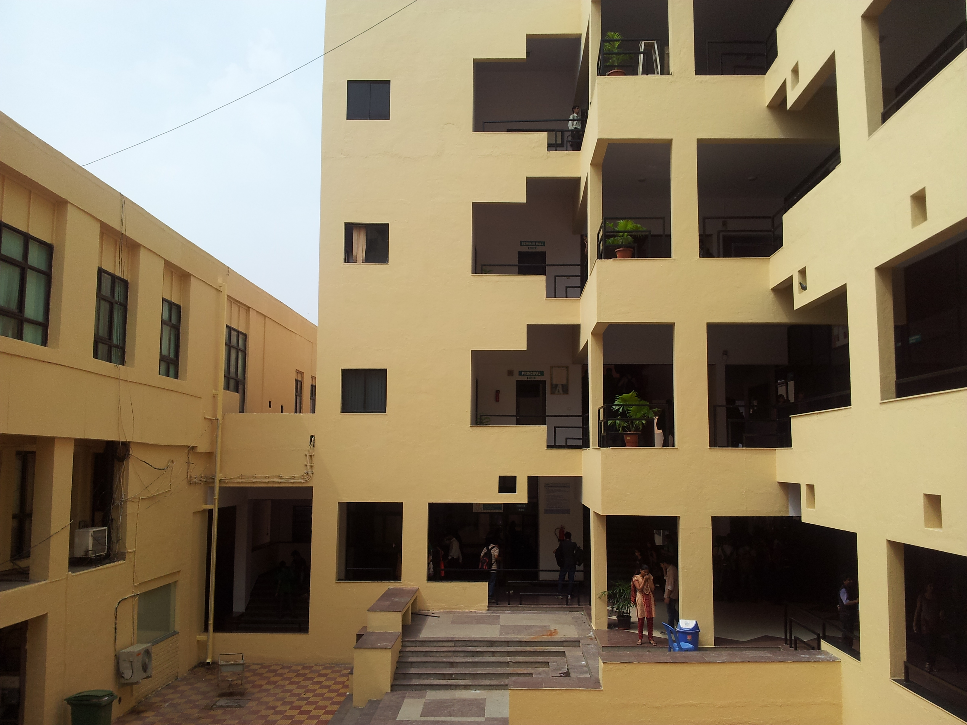 SIES Graduate School of Technology, Nerul, Navi Mumbai main Building & Quadrangle.